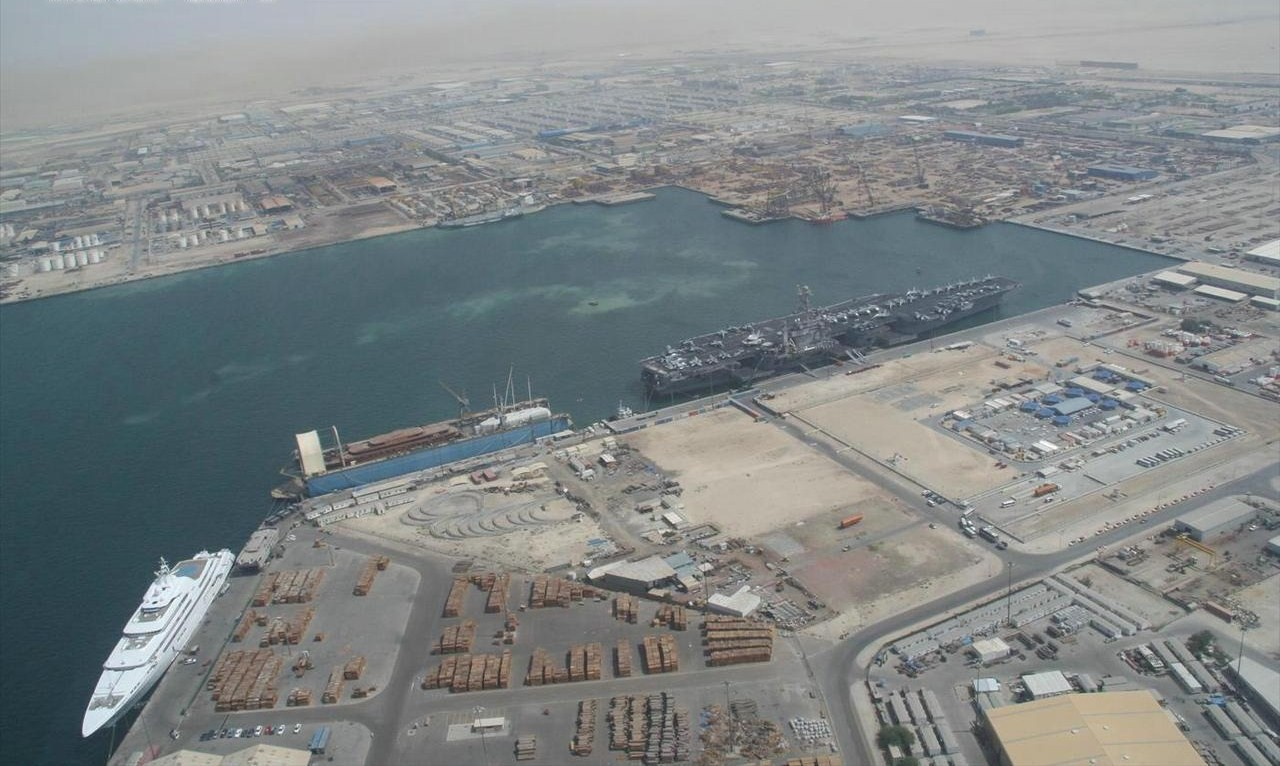 This is a photo showing Port Jebel Ali in Dubai, United Arab Emirates as seen from the air on 1 May 2007. The United States Aircraft Carrier USS John C. Stennis (CVN-74) be seen docked at the port to the right. On the left is the Megayacht Platinum (now the Dubai)